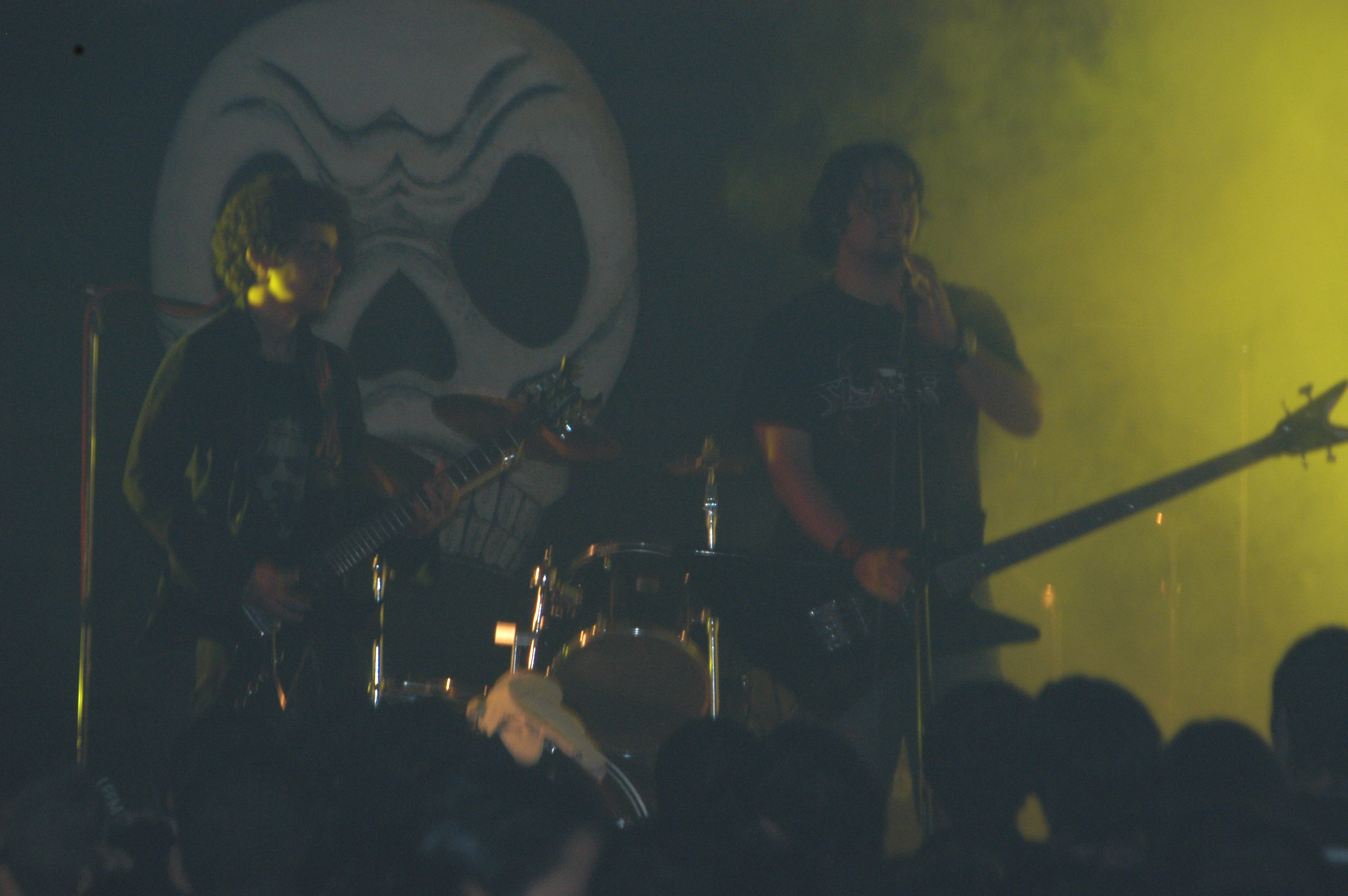 Image of Motör Militia bassist/vocalist Mahmood Abdul Ghaffar and guitarist Yousef Hatlani performing at Friendly Violent Fun 2.